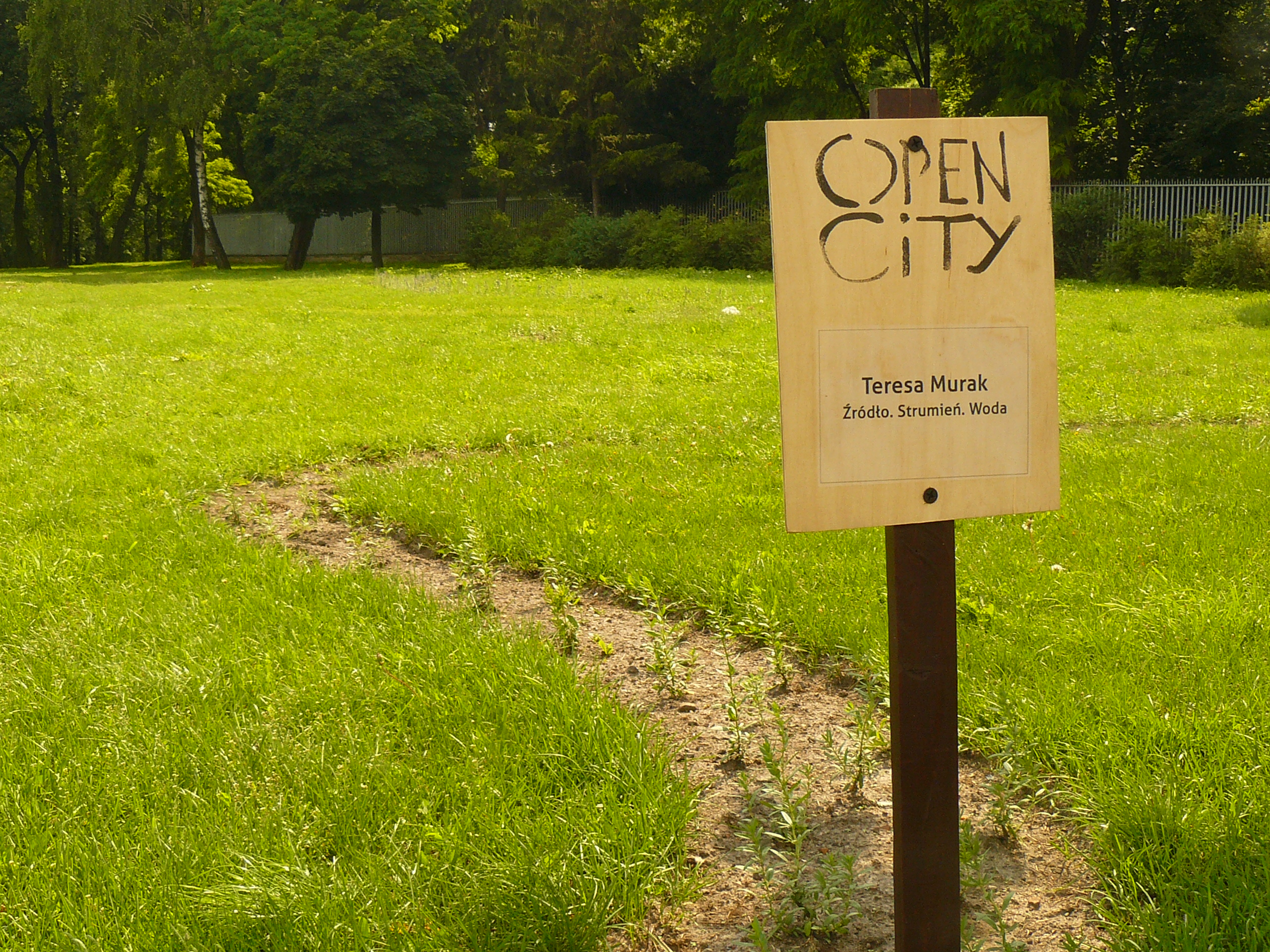 Teresa Murak, an artist from Lublin, made performance installation, using grass and flowers. Title of her work: "Źródło.Strumień.Woda", in